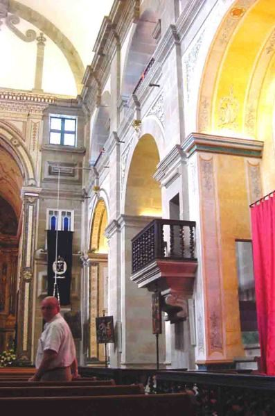 The interior and pulpit of the Church of the Misericórdia, Sé, Angra do Heroísmo, Terceira (Azores), Portugal.